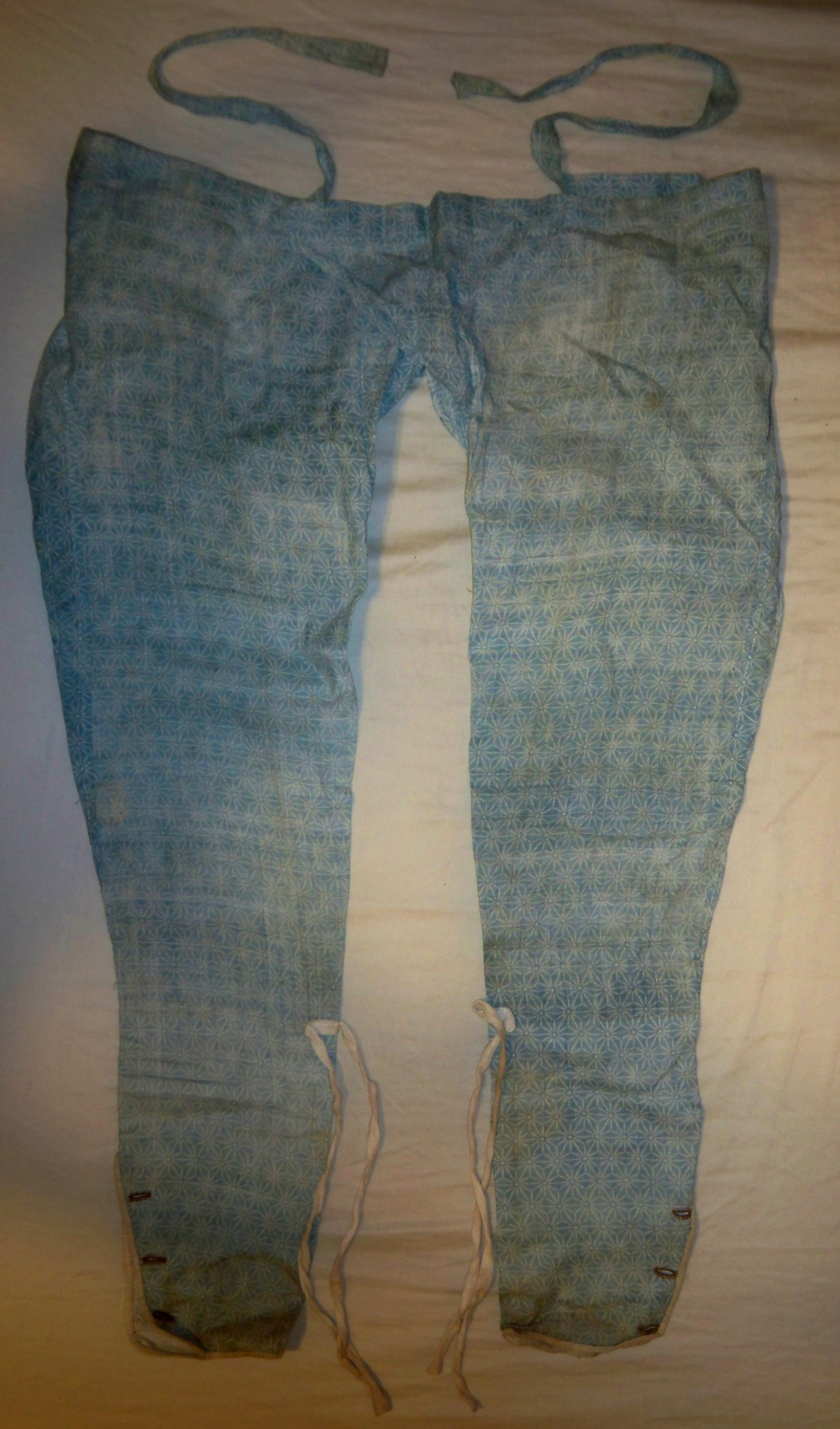 Antique Japanese (samurai) momohiki (pants).